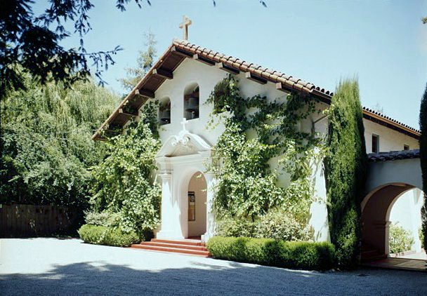 Monochrome photograph of Our Lady of the Wayside Church in Portola Valley/Woodside, California. Built in 1912, it was Timothy Pflueger's first commission.